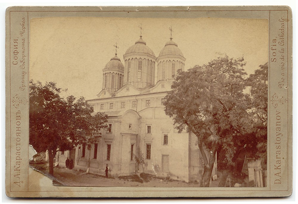 Sveti Spas Sofia